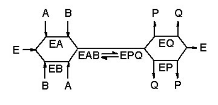 Random order ternary mechanism